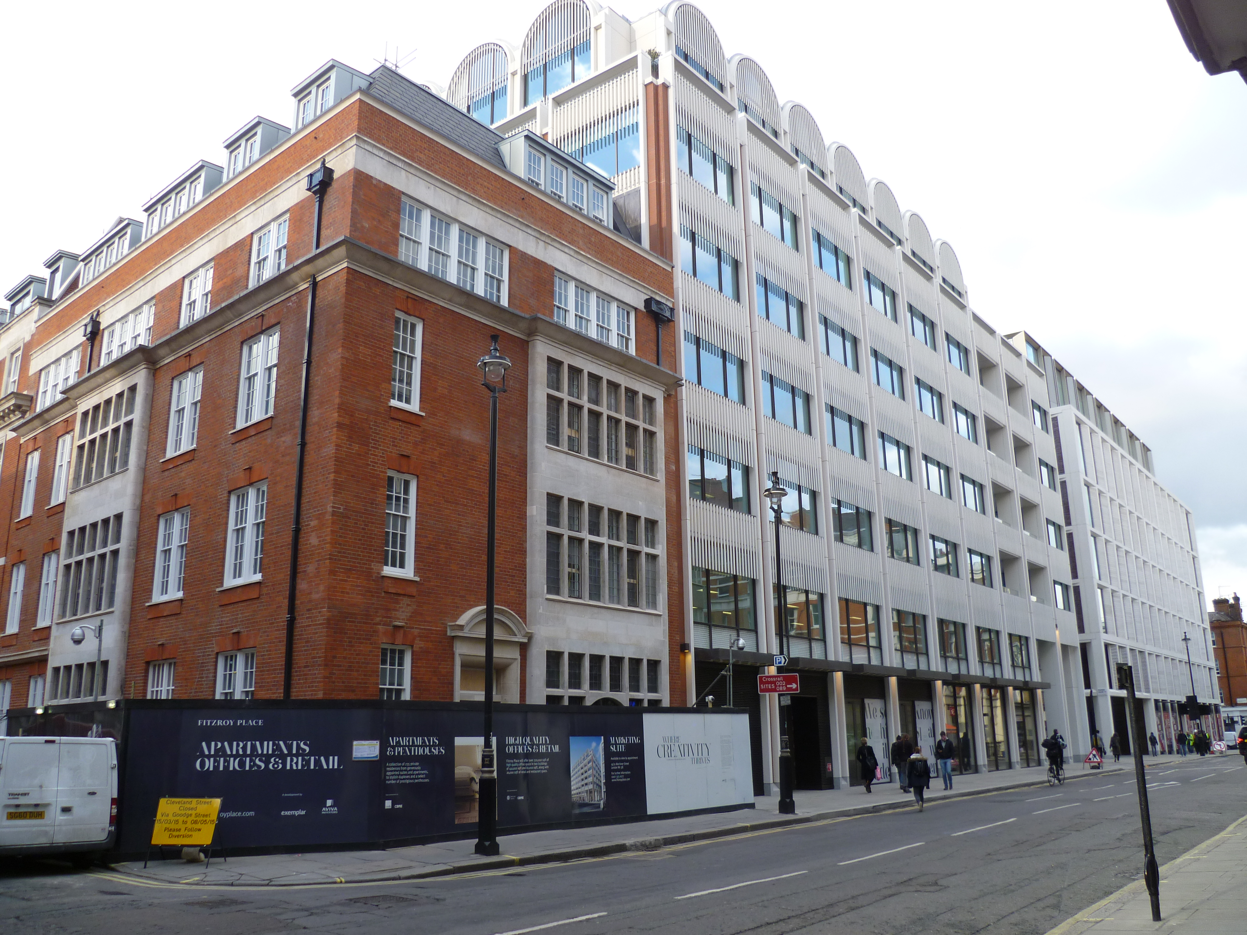 Mortimer Street, London